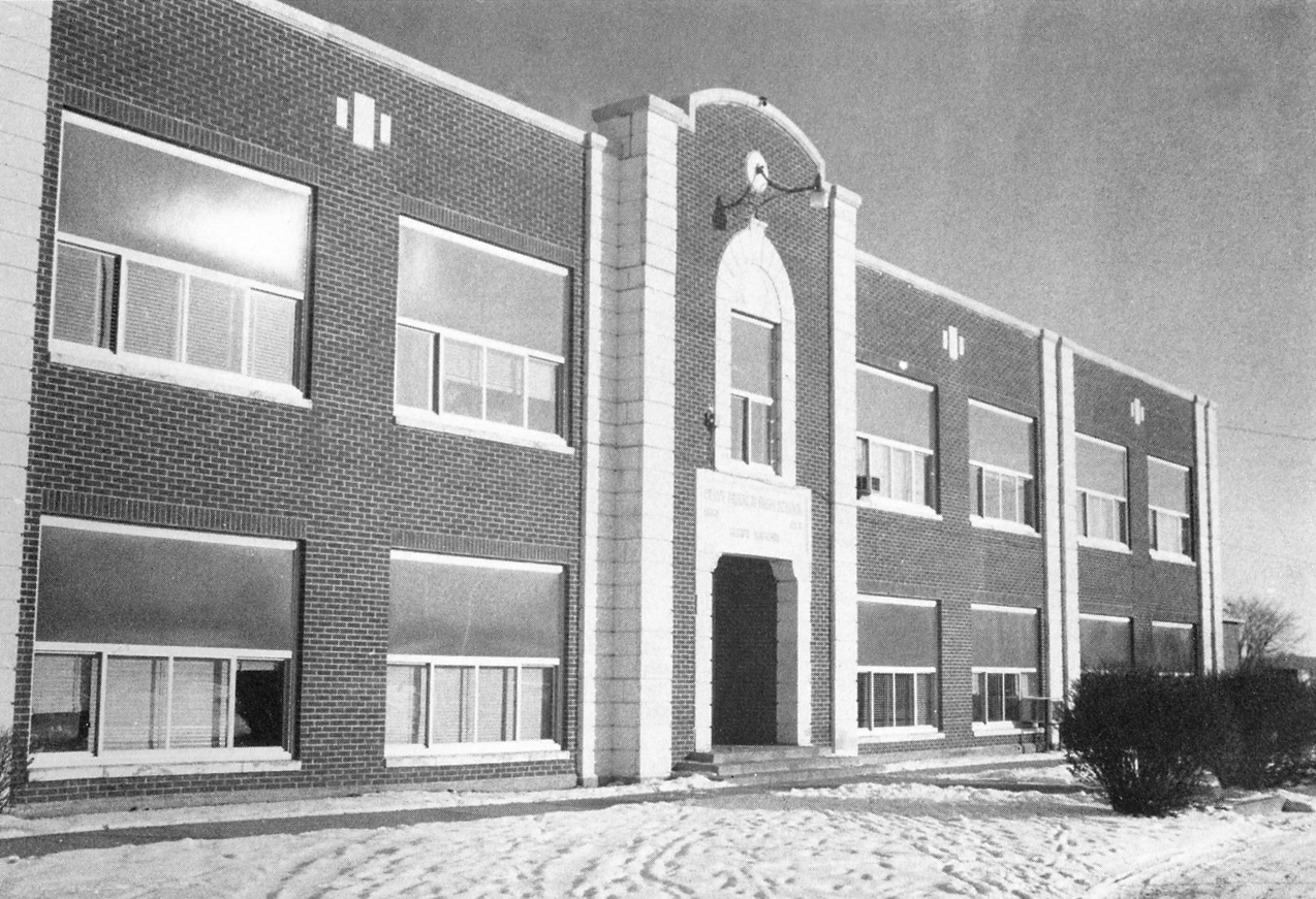 This is a photo of Olive Branch Middle School near New Carlisle, Ohio, USA. The middle school was housed in a building formerly used for Olive Branch High School, hence the name above the doorway. The building was constructed in 1928 and was demolished and replaced in 2007. The photo was taken in late 1983 or early 1984 by an unknown photographer for the school yearbook. It was scanned directly from the printed yearbook, which was published in 1984 without a copyright notice.